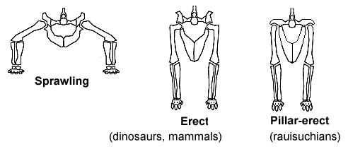 The 3 main types of hip joint in tetrapods